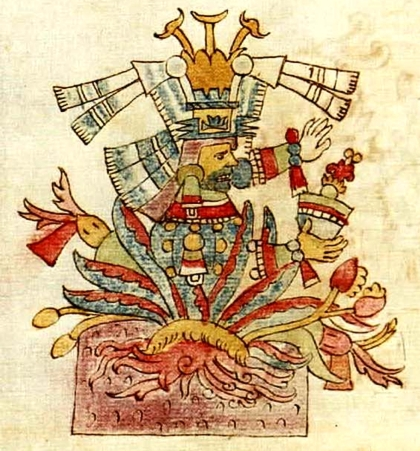 The Codex Rios, 16th century.